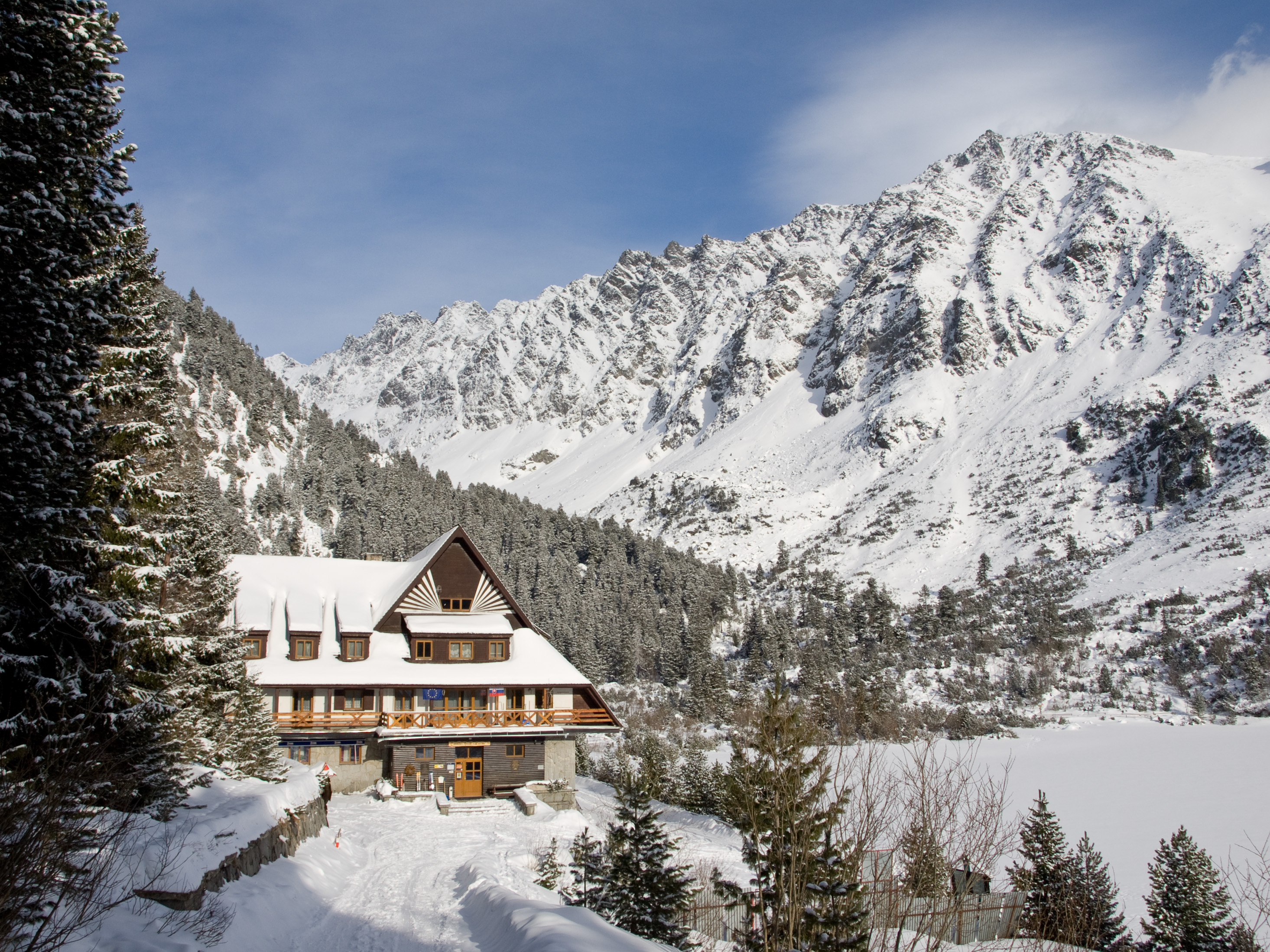 Mountain hut between Popradské pleso, High Tatra